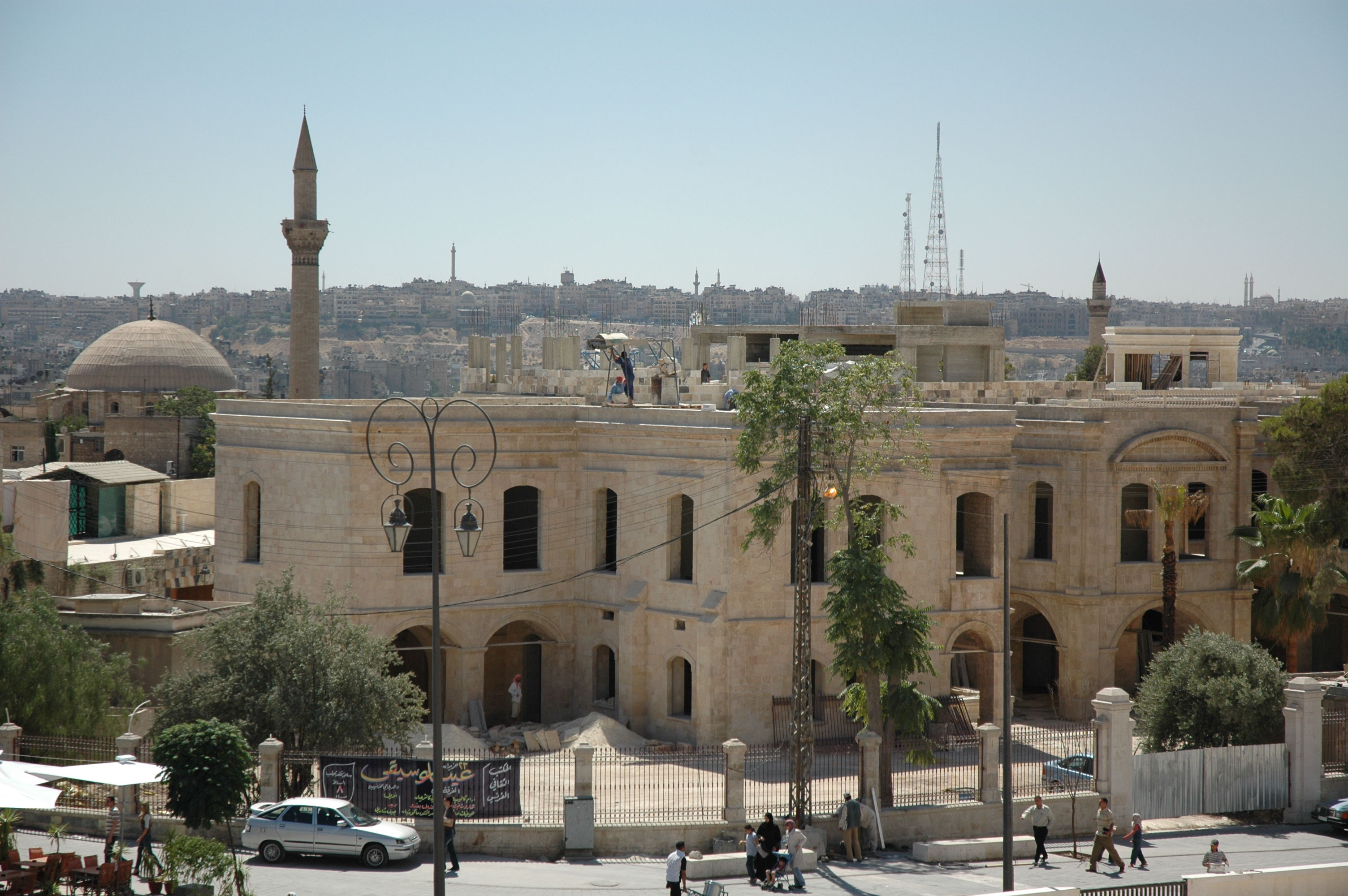 Ancient City of Aleppo (Syrian Arab Republic)